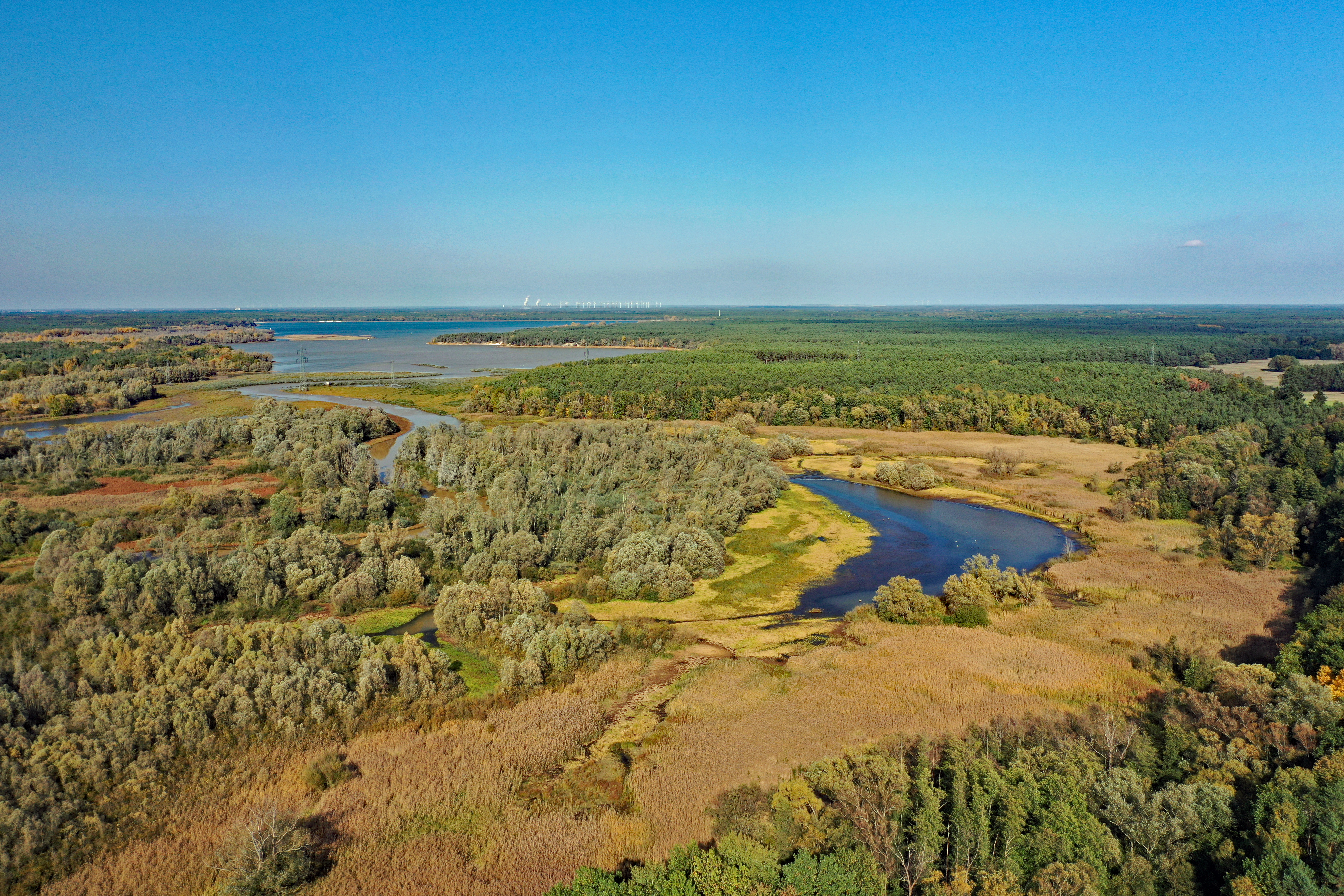 Talsperre Spremberg near Sellessen (Brandenburg, Germany)